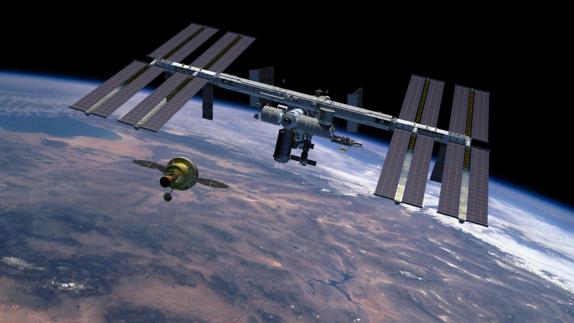 Orion Spacecraft approching ISS (May 2007)